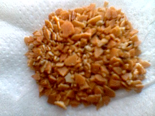 Flakes of trinitrotoluene.